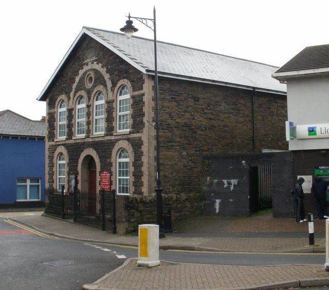 Hope Methodist Church, Pontnewydd Located on Commercial Street, Pontnewydd, Cwmbran.